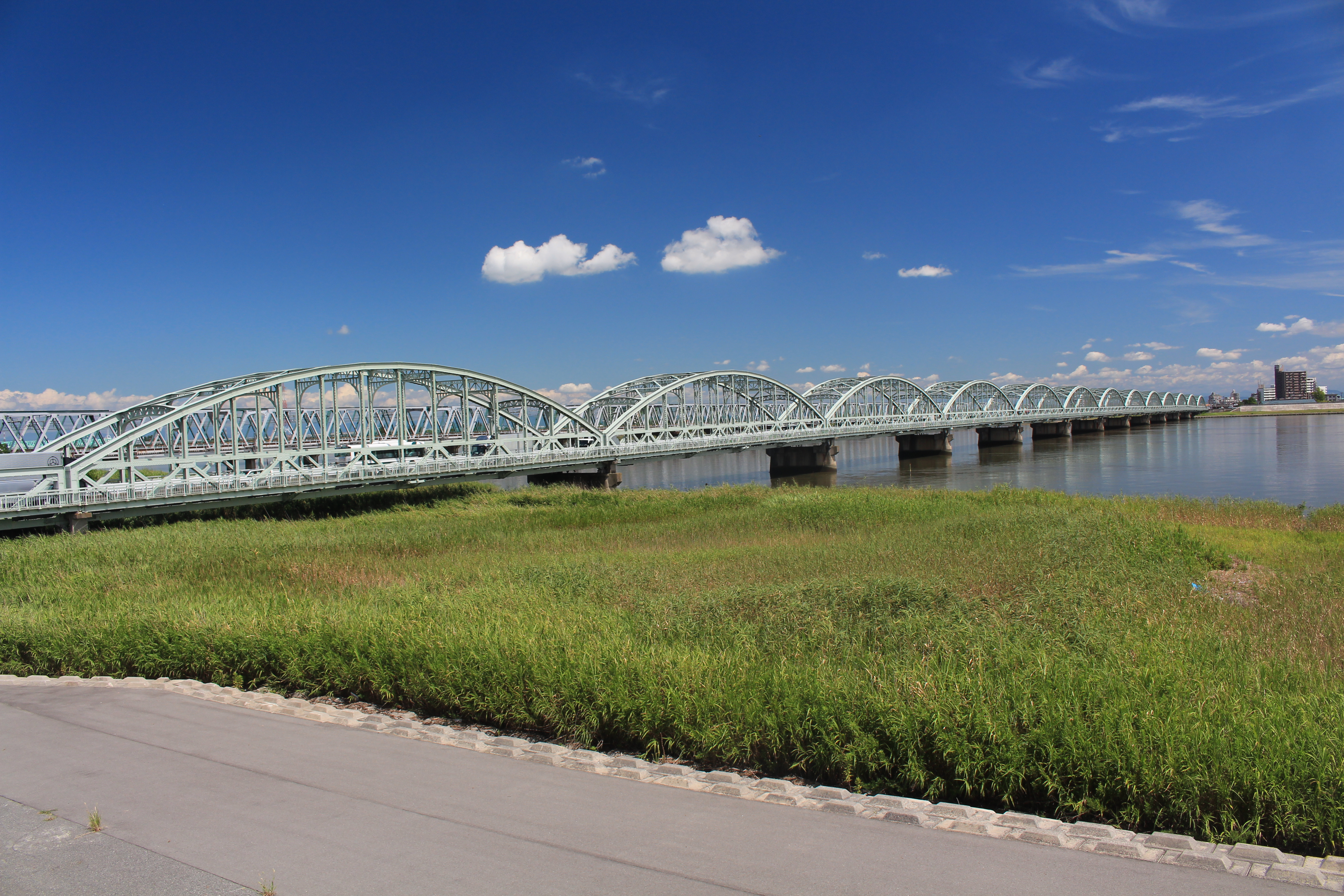 Owari Bridge of Route1 over Kiso River in Japan.